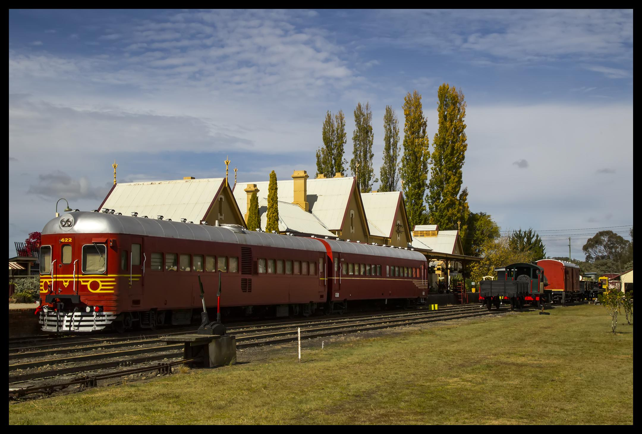 Temterfield Railway Station